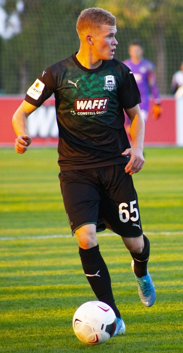 Nikolai Bochko with FC Krasnodar-2 in a game against FC Fakel Voronezh.